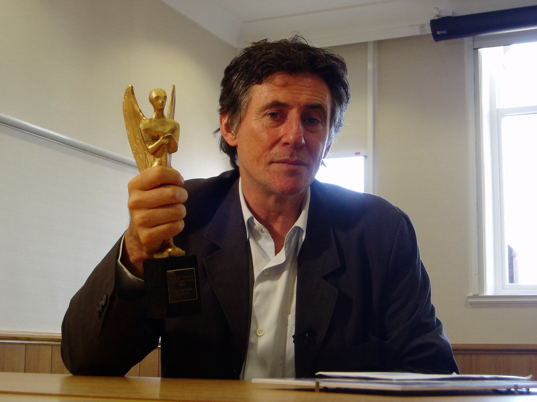 Irish actor Gabriel Byrne holding his Herald Angel, an award given to him at the 2006 Edinburgh festival.